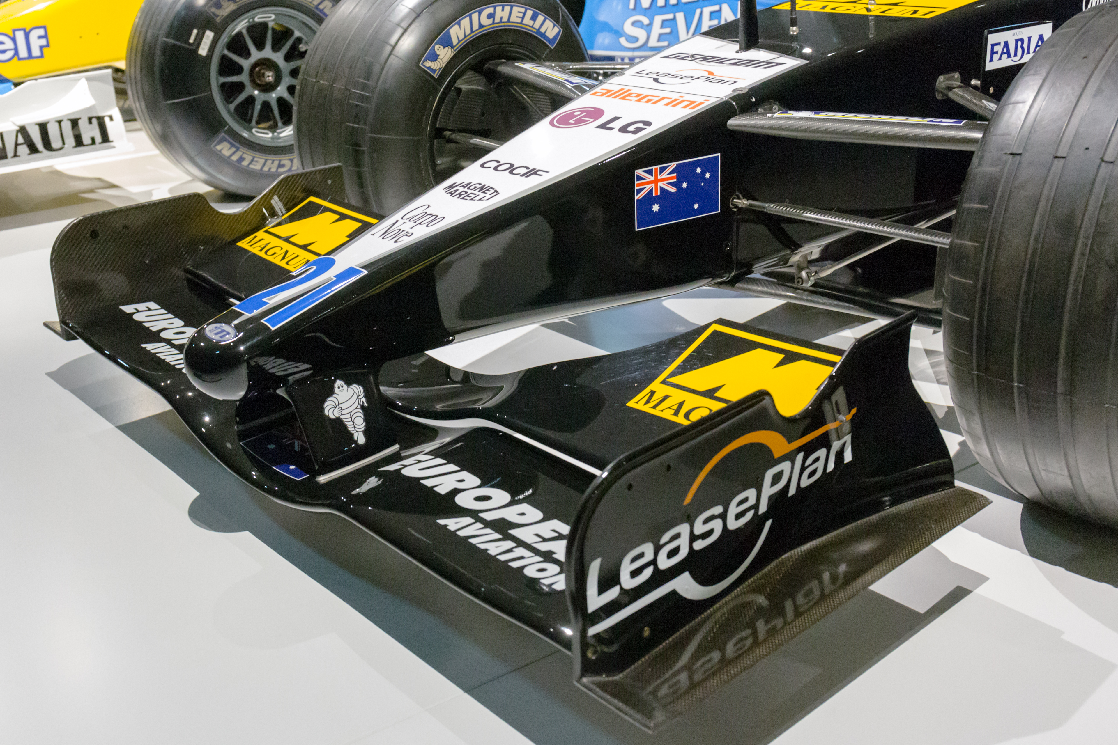 Museo y Circuito Fernando Alonso: 2001 Minardi PS01 of Fernando Alonso